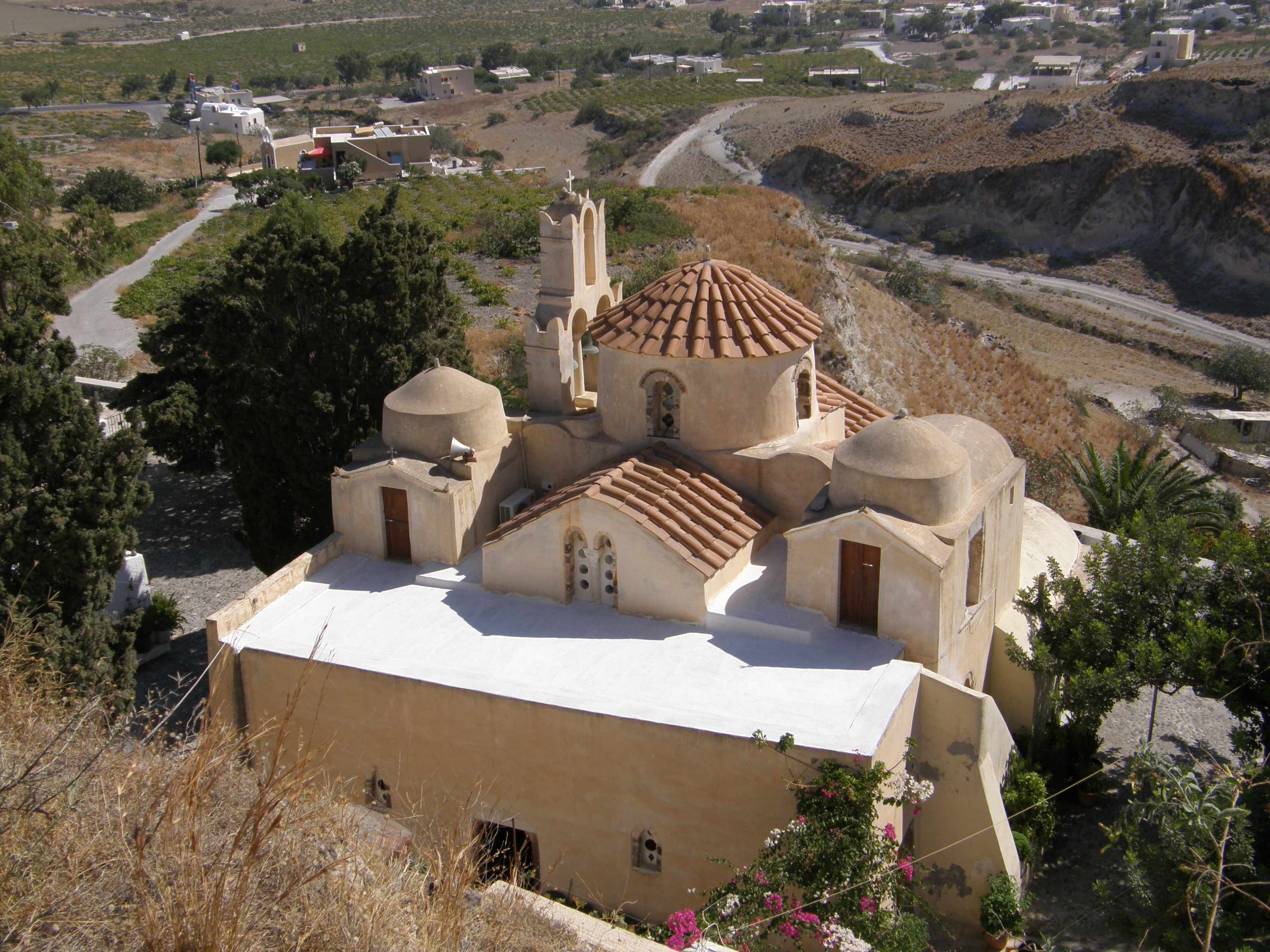 The old episcopical church of Santorini... (Scrutinizing my old photos)